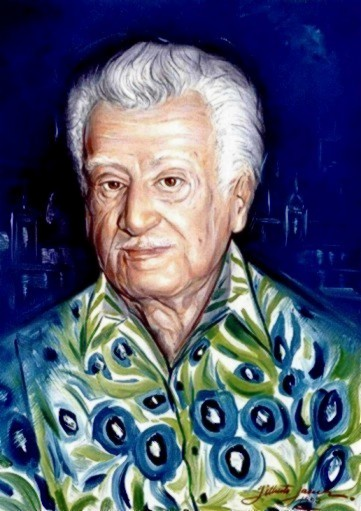 Portrait of Brazilian writer Jorge Amado.